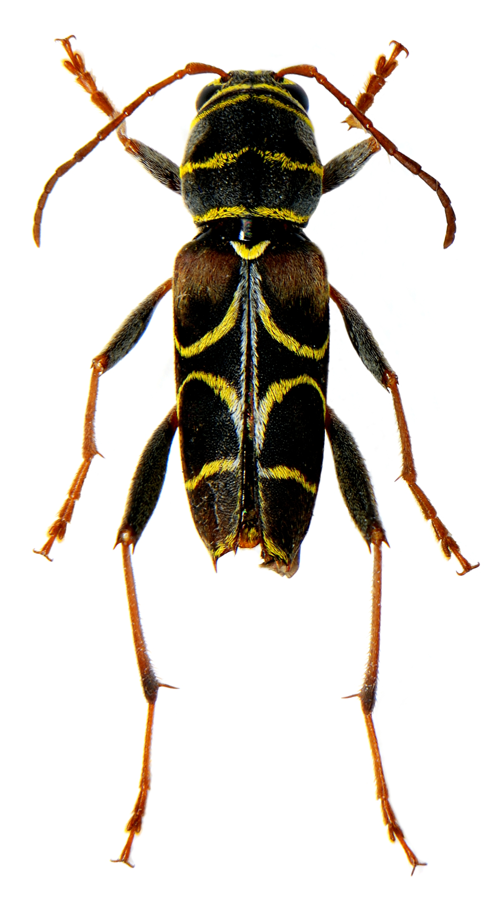 Specimen of Neoclytus scutellaris (Olivier), a cerambycid or longhorn beetle of the tribe Clytini. This individual was collected in USA: Connecticut: Middlesex County: Killingworth, 9 July 2012, collector M.K. Oliver, in collection of same. Length of head and body 9.7 mm.